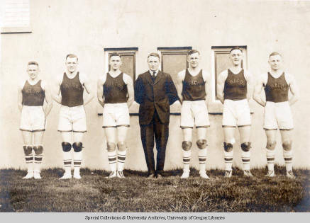 This is a photograph of the 1919 University of Oregon men's basketball team, with head coach Dean Walker in the center. The players from left to right are Eddie Durno, Ned Fowler, Carter Brandon, Herman Lind, Francis Jacobberger, and Nish Chapman. This team won the Pacific Coast Conference championship.